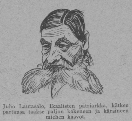 Finnish Member of the Parliament Juho Lautasalo (1862-1940) in 1926.